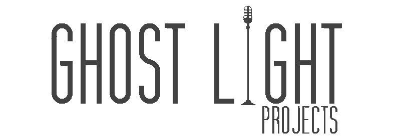 Company logo for Ghost Light Projects, theatre company operating out of Vancouver, BC Canada